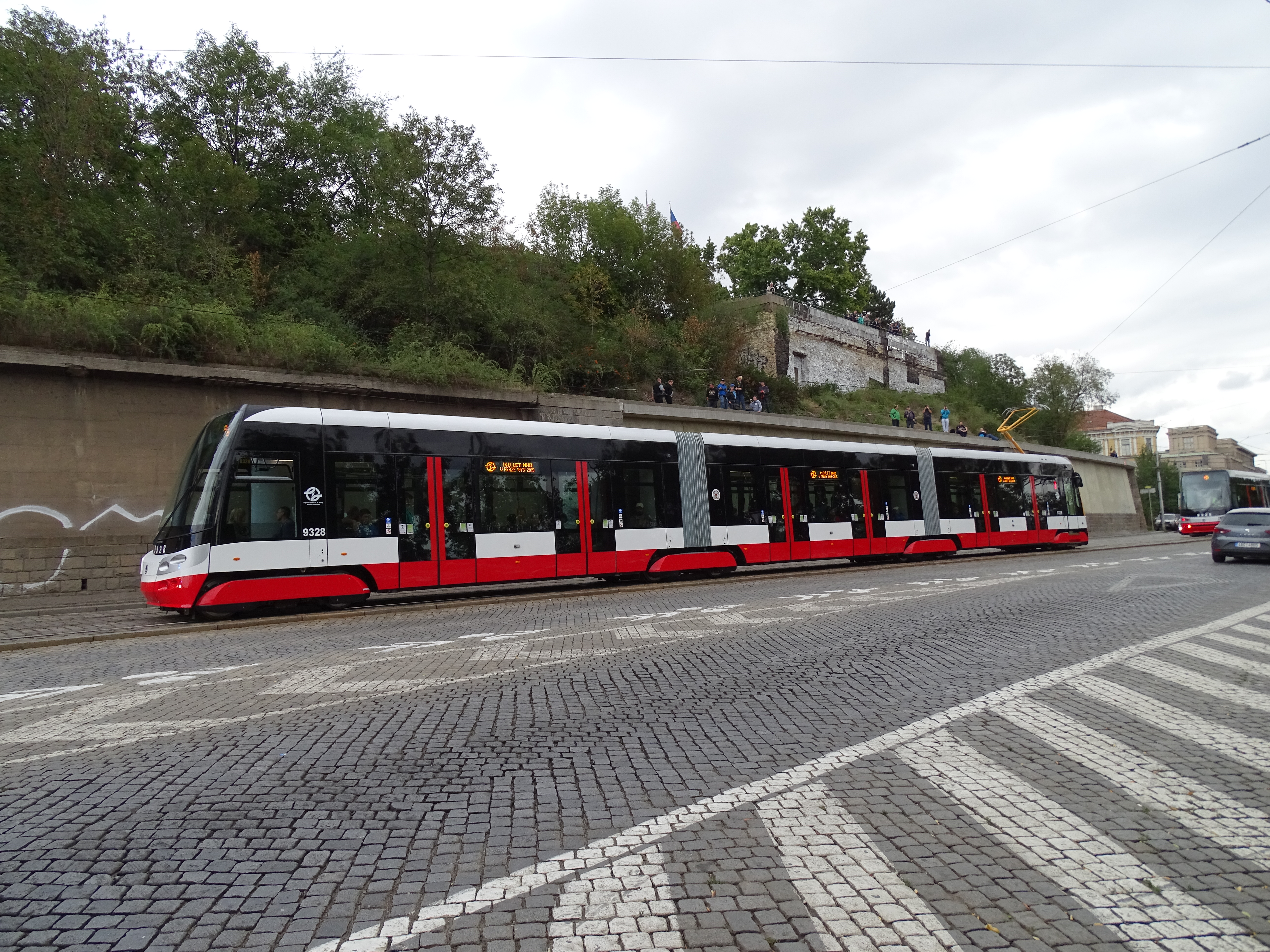 Prague-Holešovice, Czech Republic. Nábřeží Kapitána Jaroše, a tram parade, trams #9328.